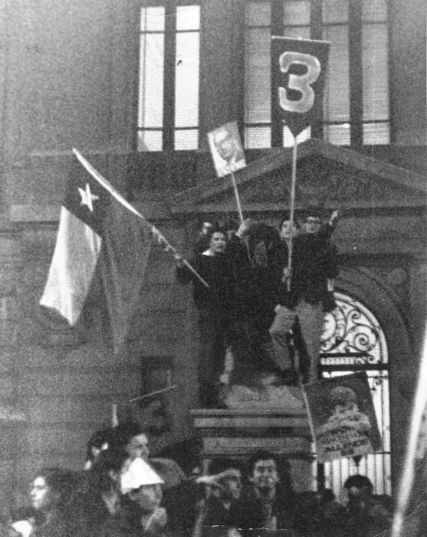 I took this picture the night Salvador Allende won the election in Chile. It was taken with a Leica M3 and some ASA 1600 film. The grain is the size of boulders. Celebrants are standing in front of the Universidad Catolica on the Alameda in Santiago.